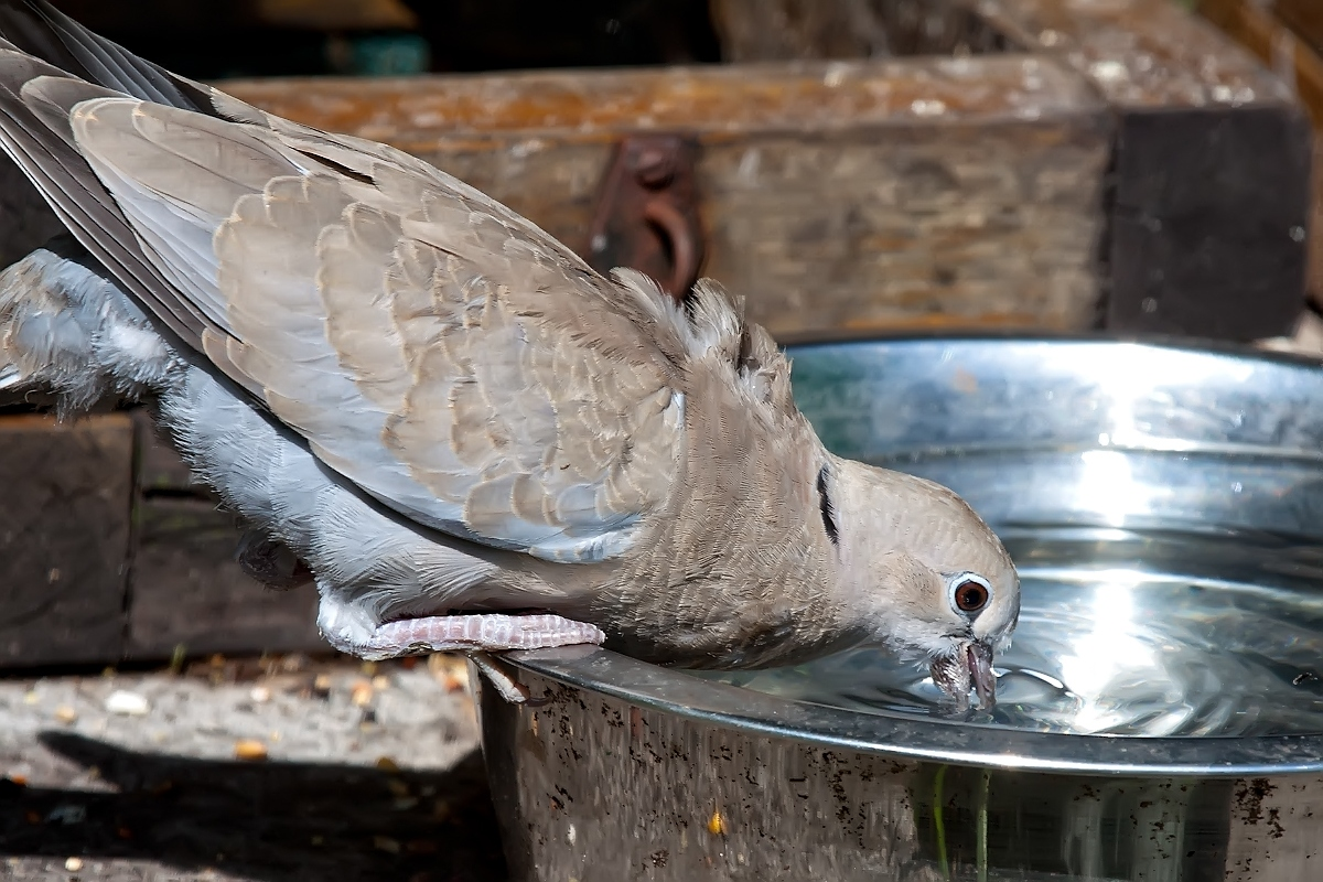 I will confess now.."I'm a total novice when it comes to birds and know nothing about names in English let alone Latin"...this is the reason they have no names...